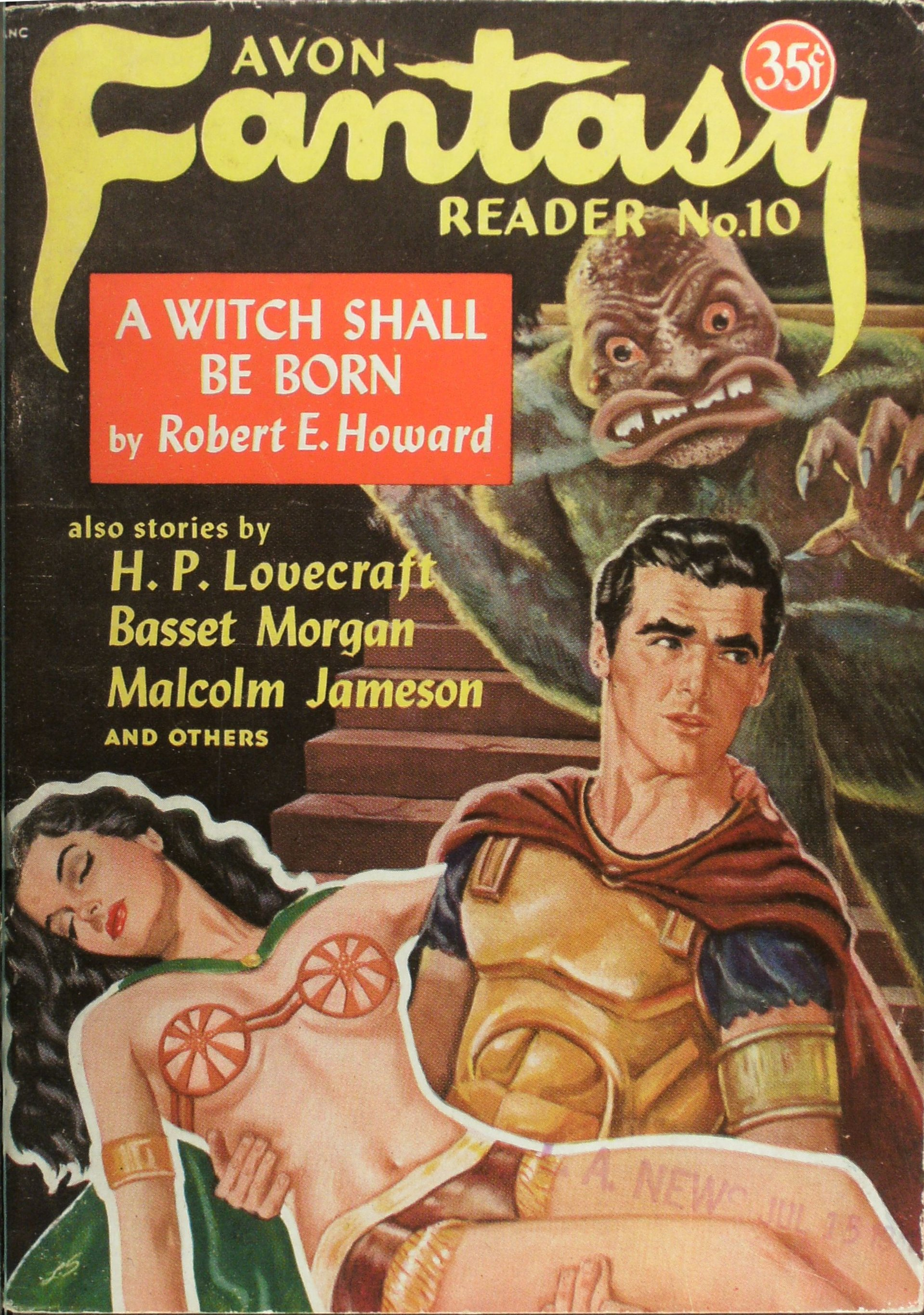 Cover of the pulp magazine Avon Fantasy Reader (May 15, 1949, no. 10) featuring "A Witch Shall be Born" by Robert E. Howard. This issue was registered with the US Copyright Office and given registration number AA136022.[1]